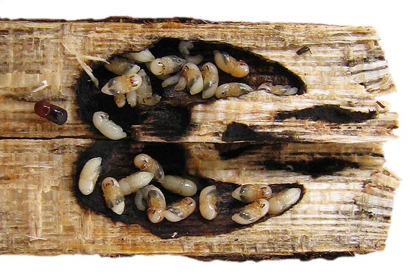 Gallery, pupae, and an adult beetle of Xylosandrus crassiusculus, one of the most common ambrosia beetle in tropical and subtropical areas worldwide.